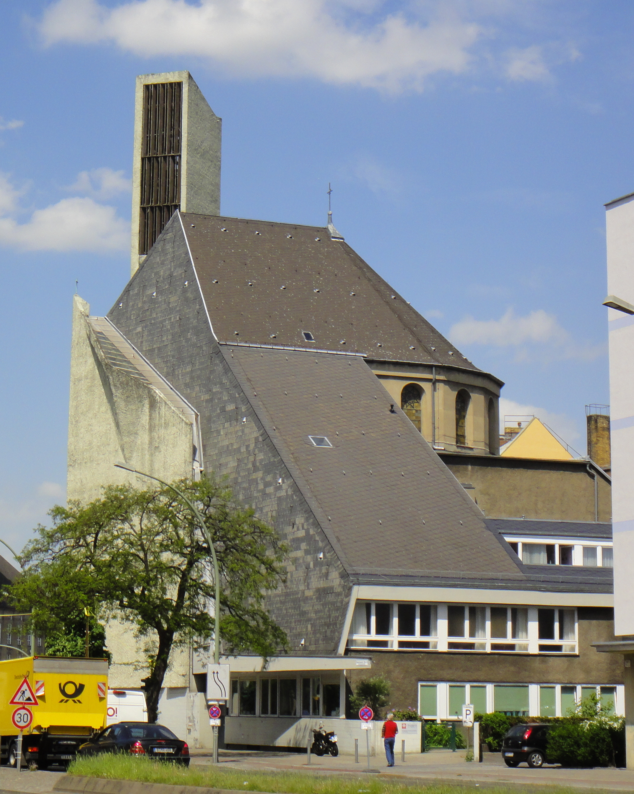 Catholic St. Norbert church, Berlin-Schöneberg